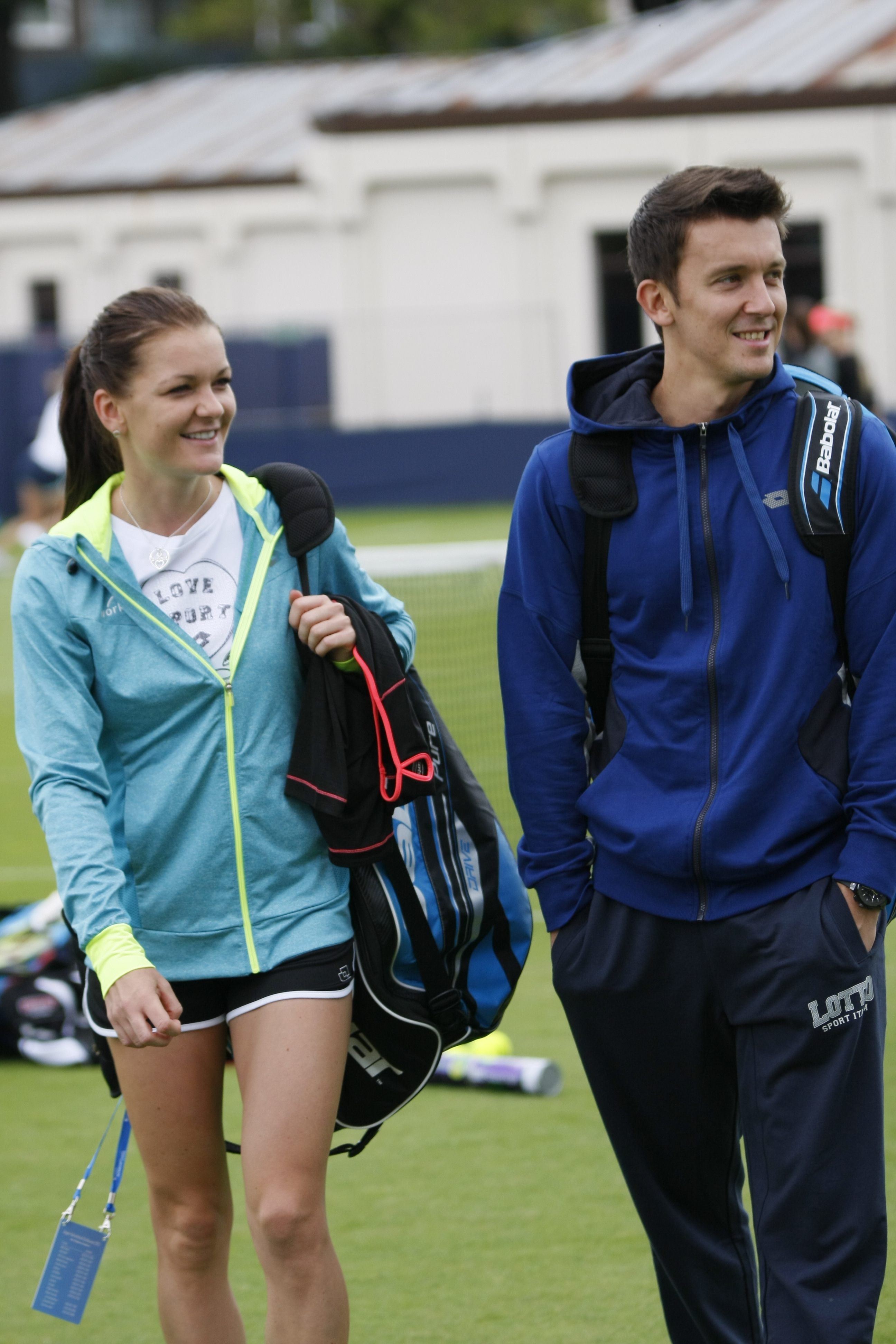 Aegon International Tennis, Devonshire Park, Eastbourne June 2015